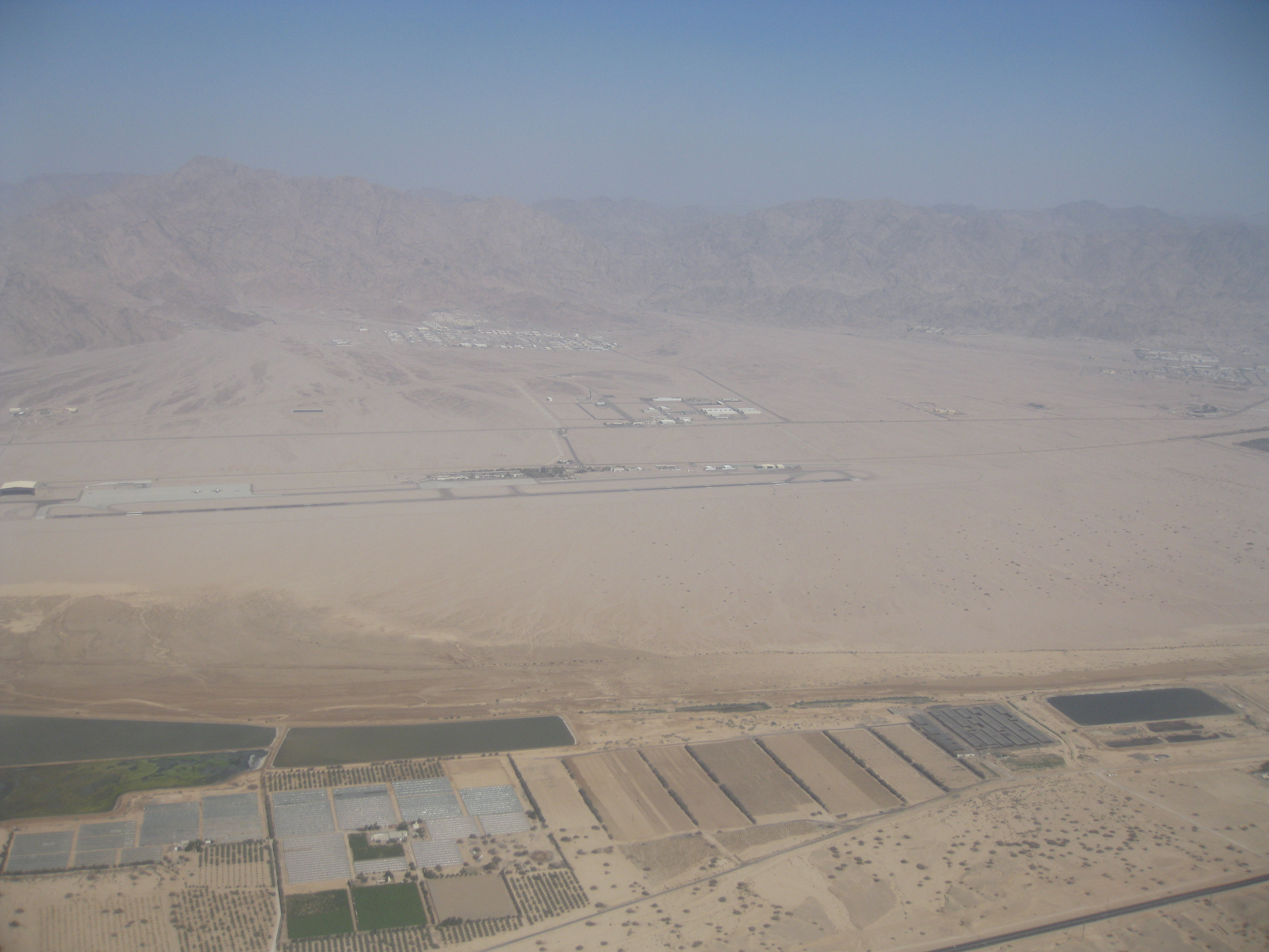 Aerial photographs of Wadi Arabah